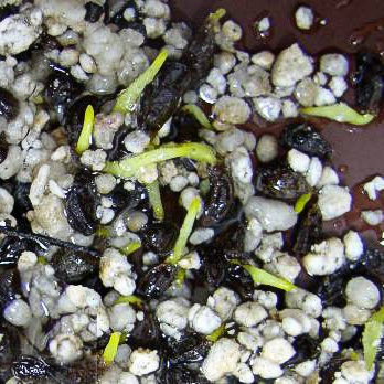 Stratified seeds of Berberis darwinii